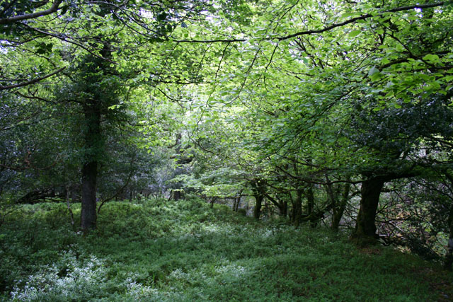 Deciduous woodland by the Owengarriff River Deciduous woodland, predominantly beech, between the Owengarriff River and the Old Kenmare Road (now on the Kerry Way footpath), south of Muckross Lake (Loch Mhucrois). The ground here is carpeted with wild garlic